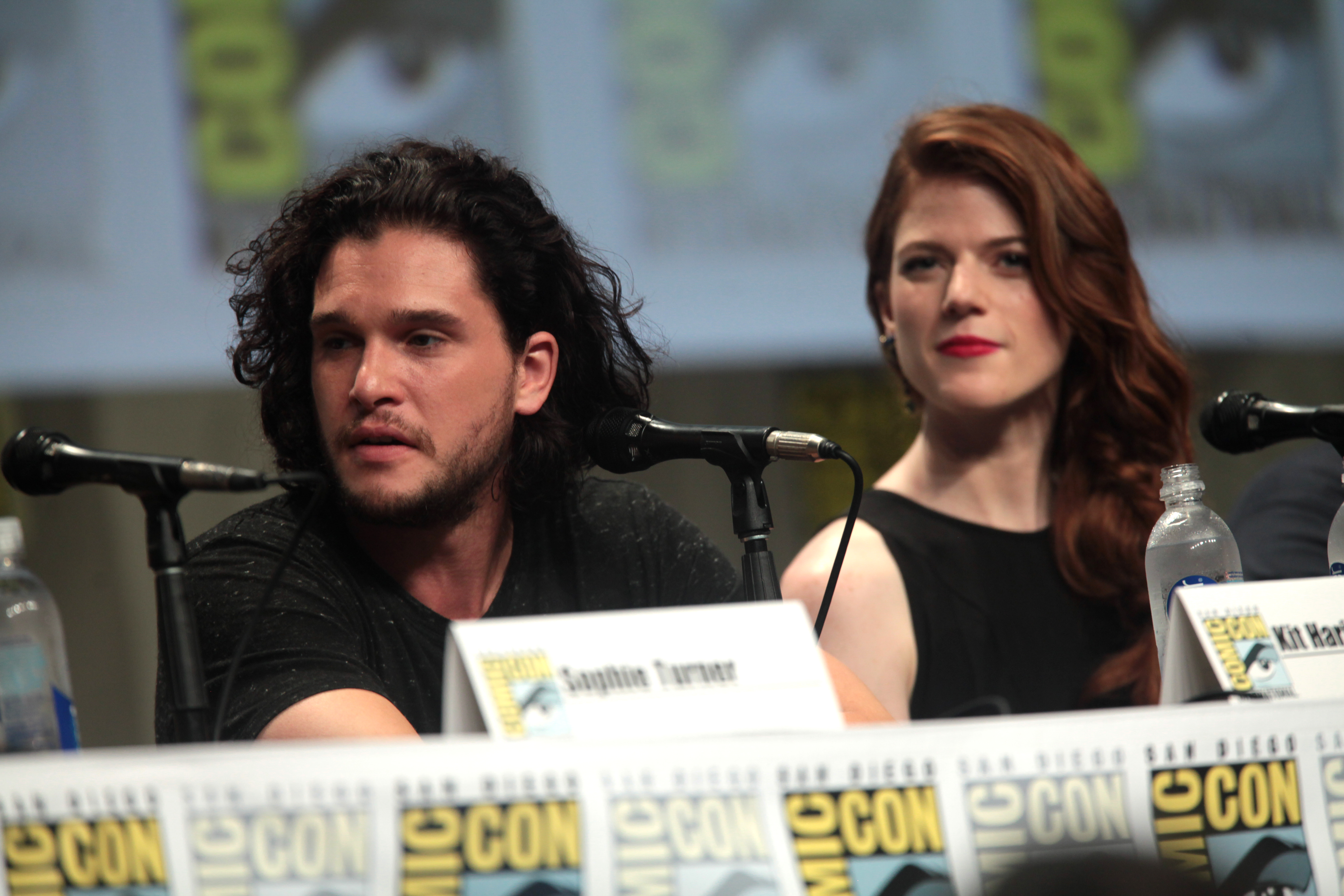 Kit Harington and Rose Leslie speaking at the 2014 San Diego Comic Con International, for "Game of Thrones", at the San Diego Convention Center in San Diego, California.